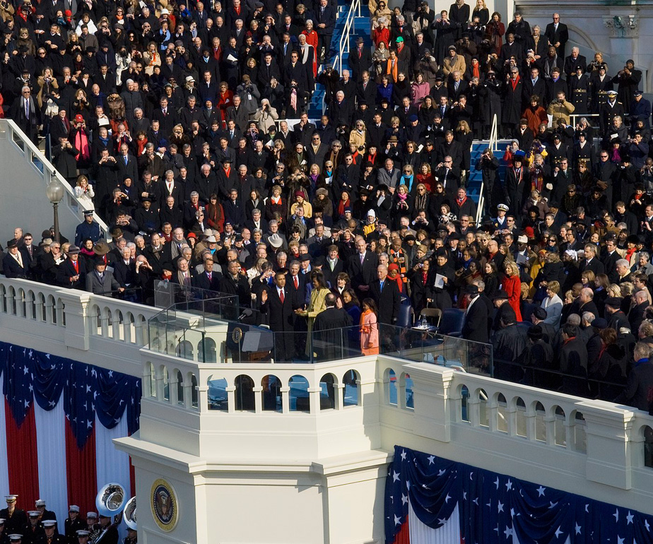 Barack Obama taking the oath of office on January 20, 2009 at the U.S. Capitol.